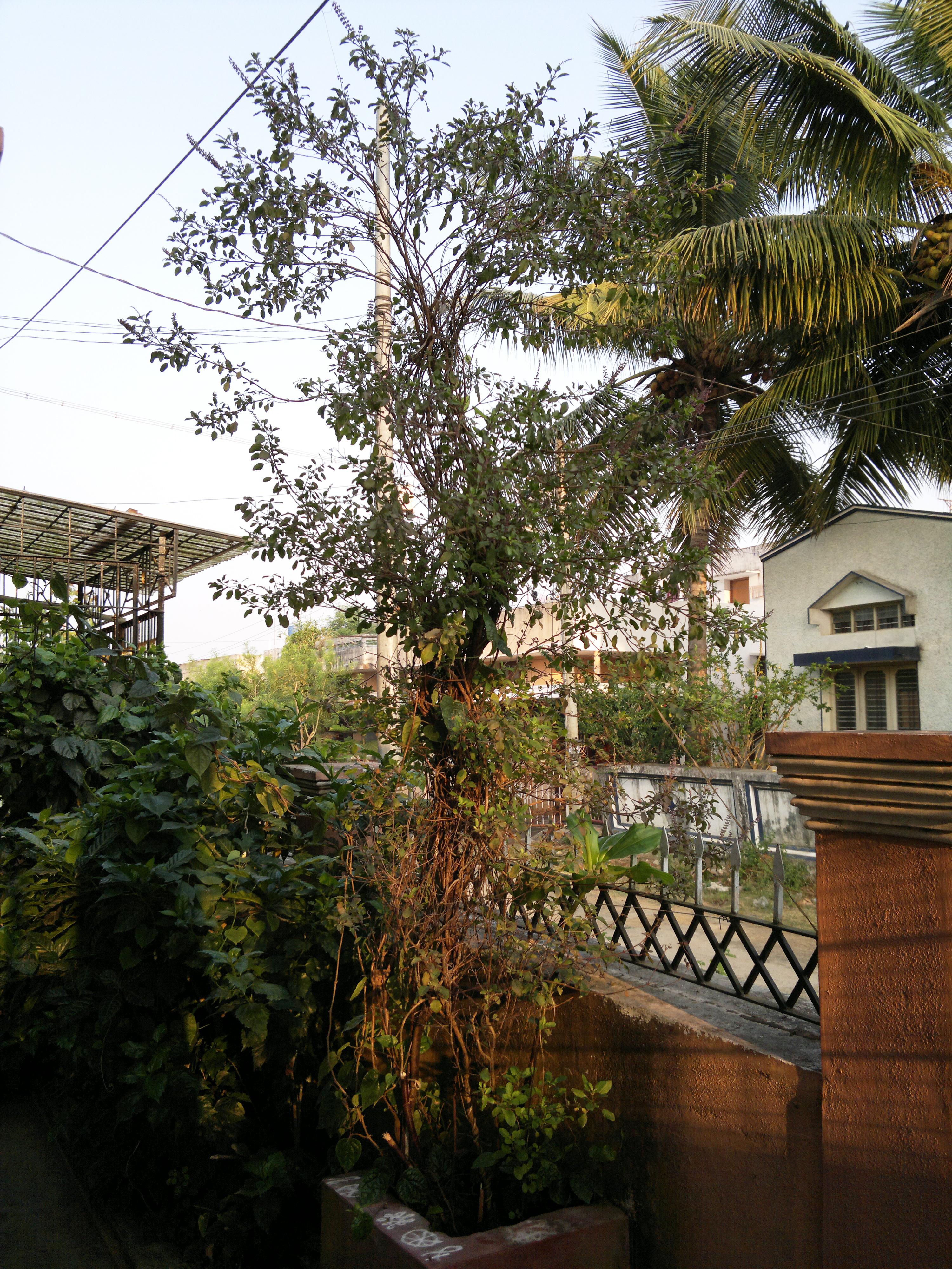 Thulasi in front of a house grown more than 6 feet